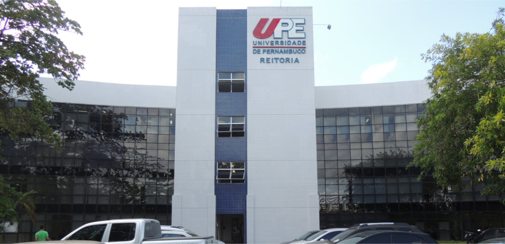 UPEs Rectory.